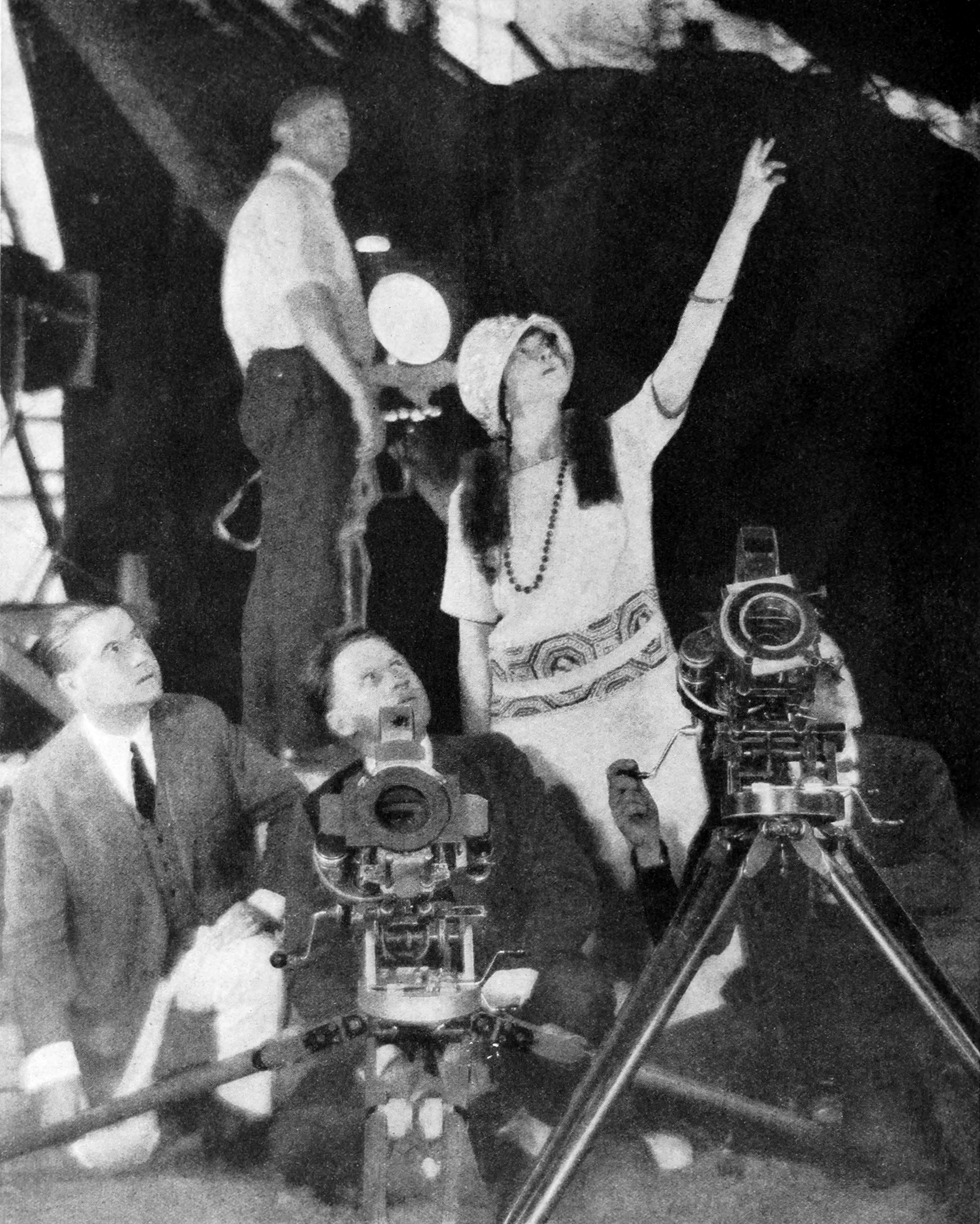 Photograph of Jane Murfin, directing the placement of lights on a film she is directing Flapper Wives (1924) is Murfin's sole credit as a director